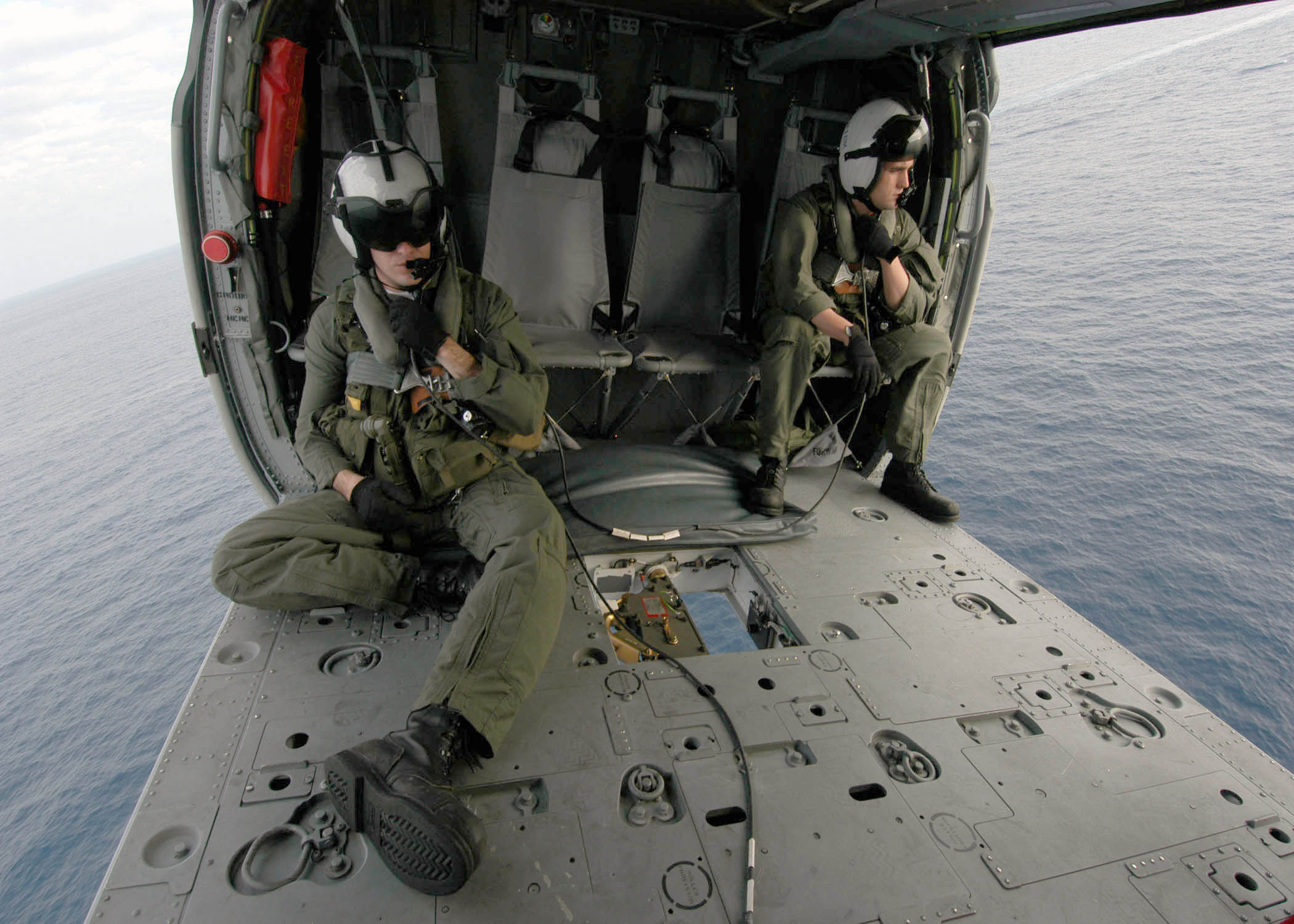 Atlantic Ocean (Apr. 23, 2004) - Search and Rescue Swimmer (SAR) members in a MH-60s “Knighthawk” helicopter monitor a vertical replenishment to transfer ammunition between USS Enterprise (CVN 65), and USS John F. Kennedy (CV 67). Kennedy is making final preparations before deploying on a scheduled six-month deployment to the Mediterranean Sea. U.S. Navy photo by Photographer's Mate 3rd Class Chris Weibull. (RELEASED)